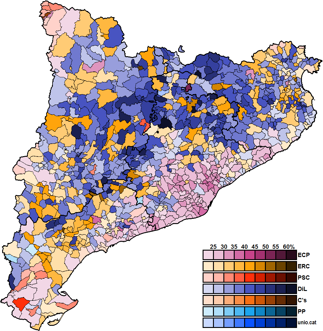 Most-voted party in Catalonia municipalities, showing vote share obtained, in the Spanish general election, 2015.